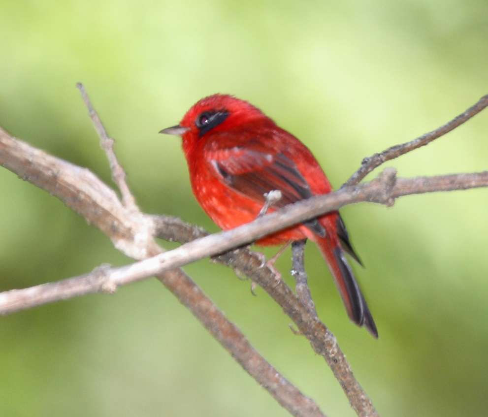 Red Warbler (Ergaticus ruber) in Sinaloa, Mexico.